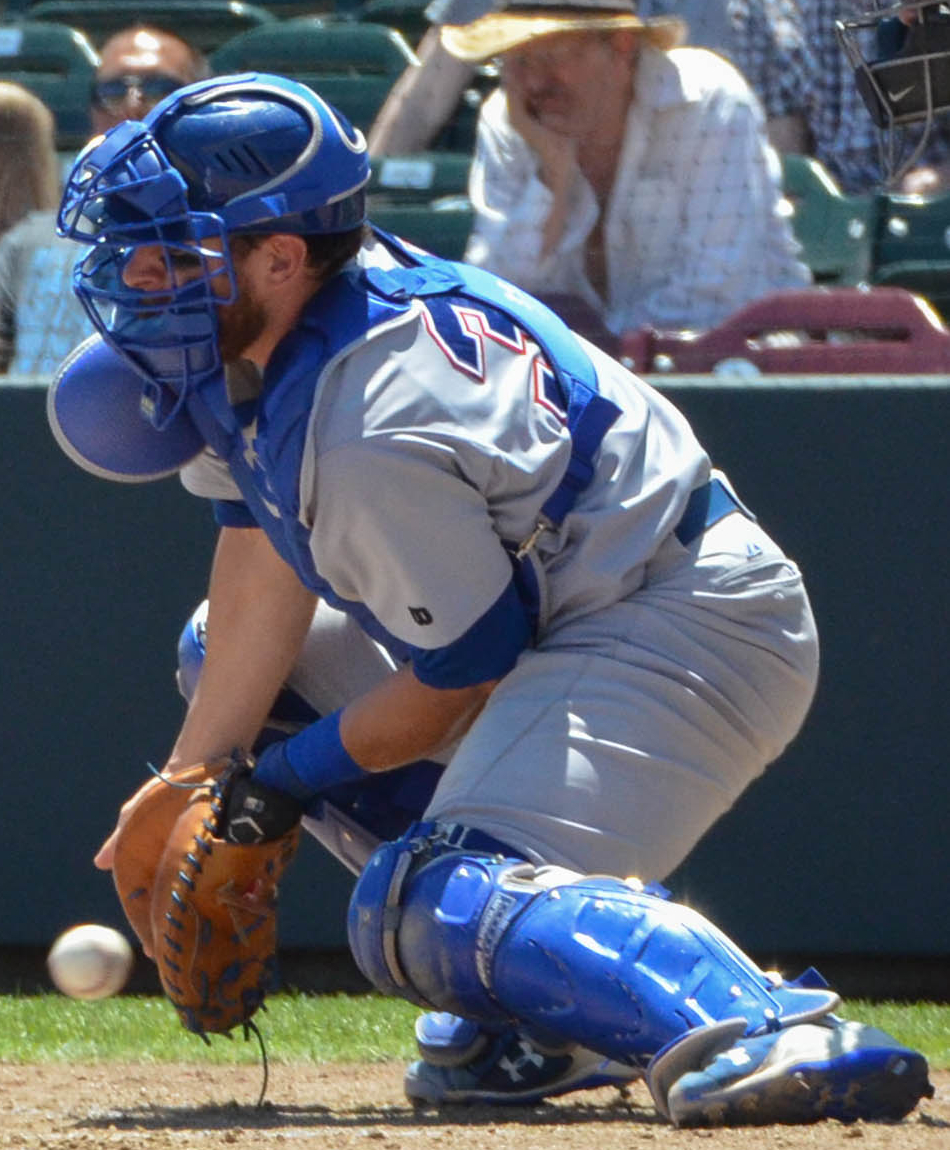 Taylor Teagarden